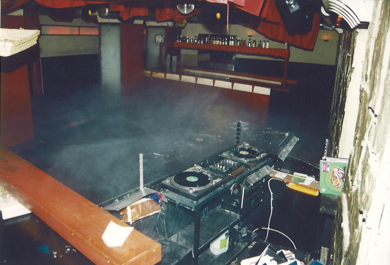 Monte DJ stand 1999